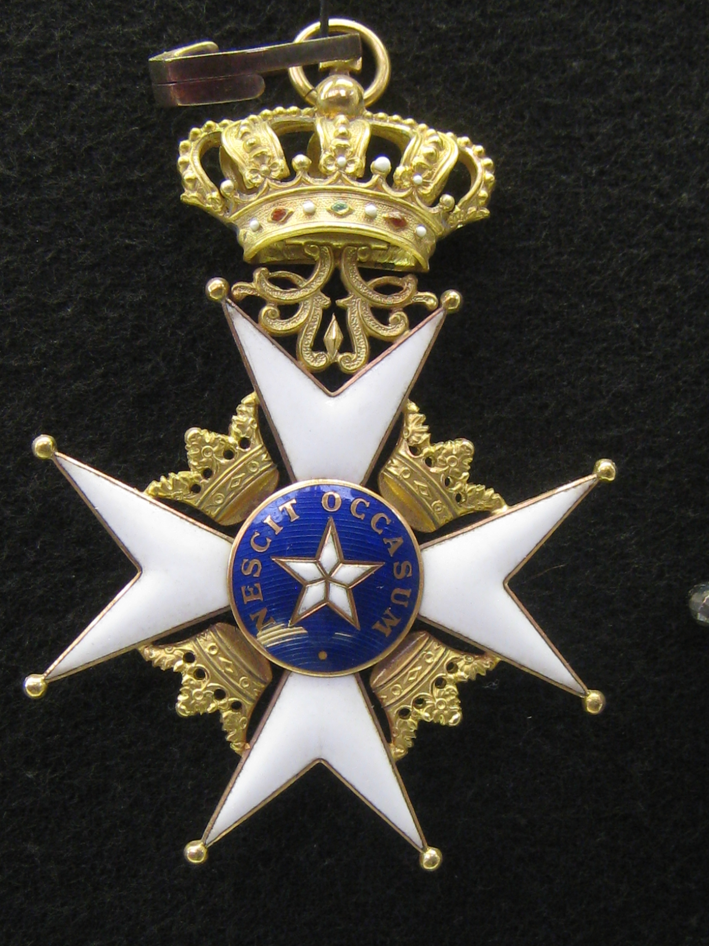 Order of the North Star, Grand Cross (Sweden), from the collection of Don Pedro Christopherson. In the Fram Museum, Oslo, Norway.